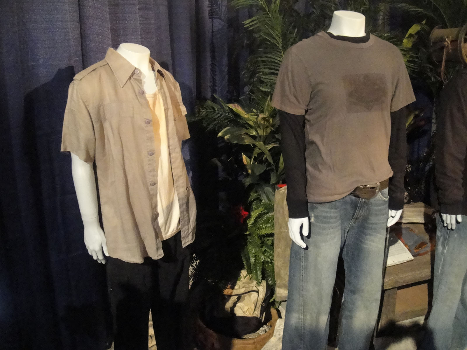 Disney Treasury Archives